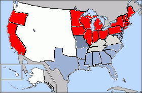 1860 elections in the USA results by state